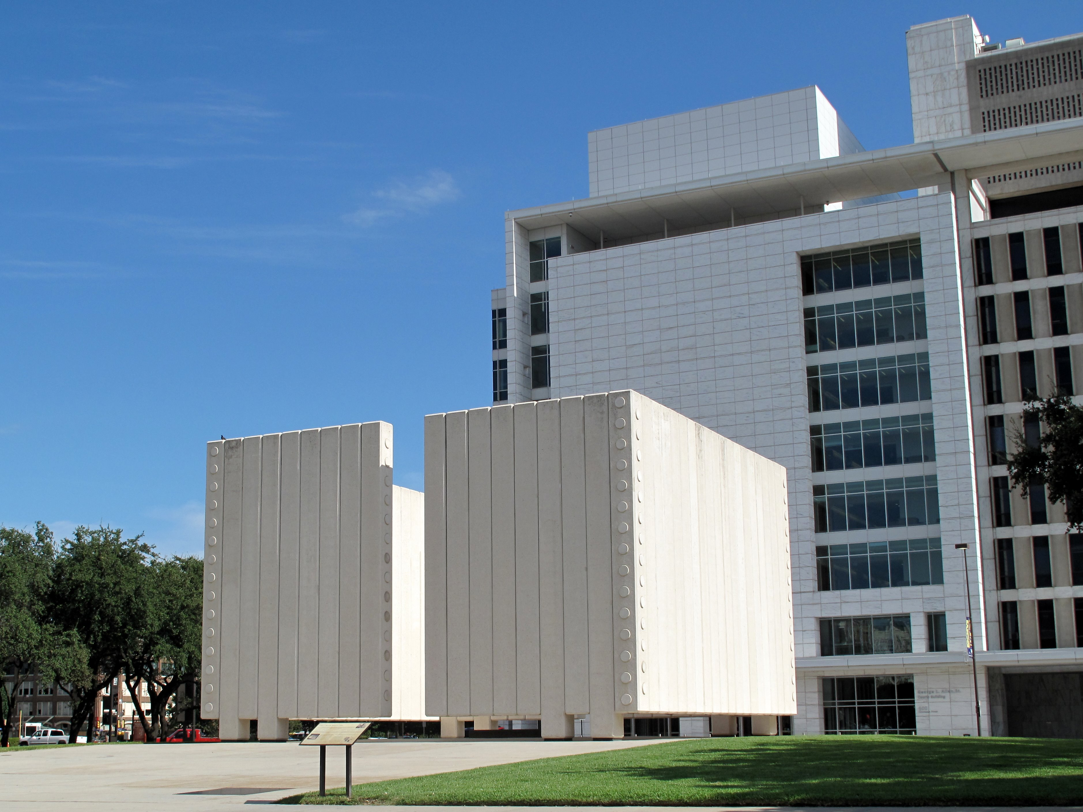 John Fitzgerald Kennedy Memorial (designed by architect Philip Johnson), Dallas, Texas